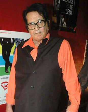 Manoj Kumar in 2011